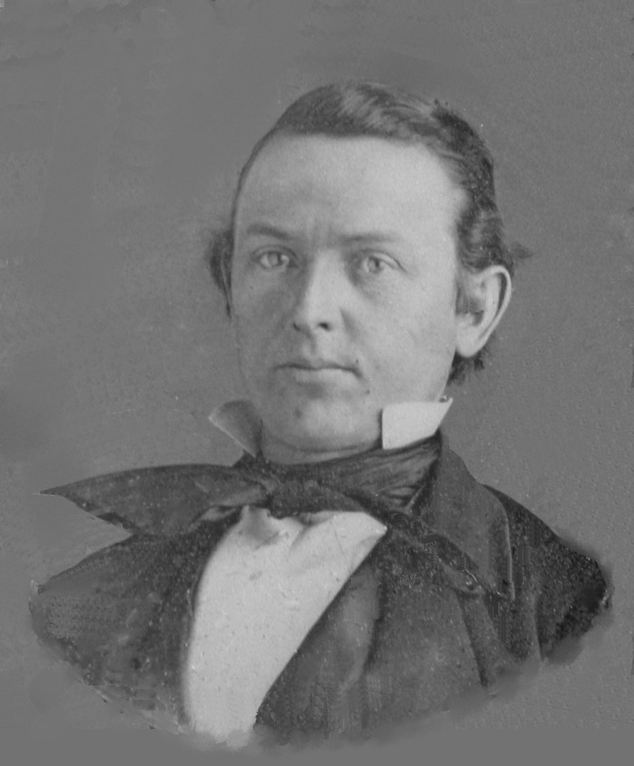 Photo of Charles Abiathar White, circa 1848 at the age of 22.